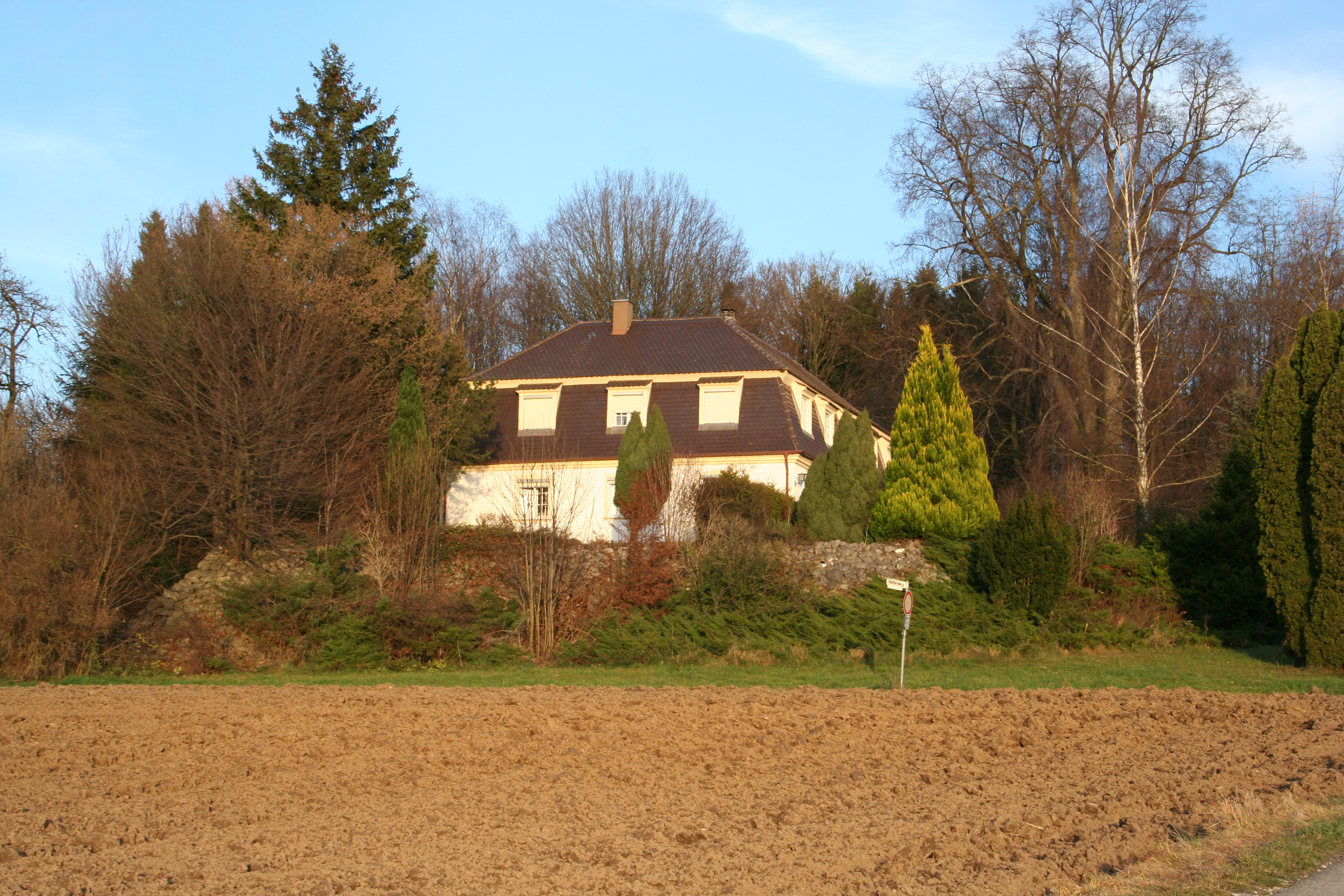 Josephslust near Niederraunau